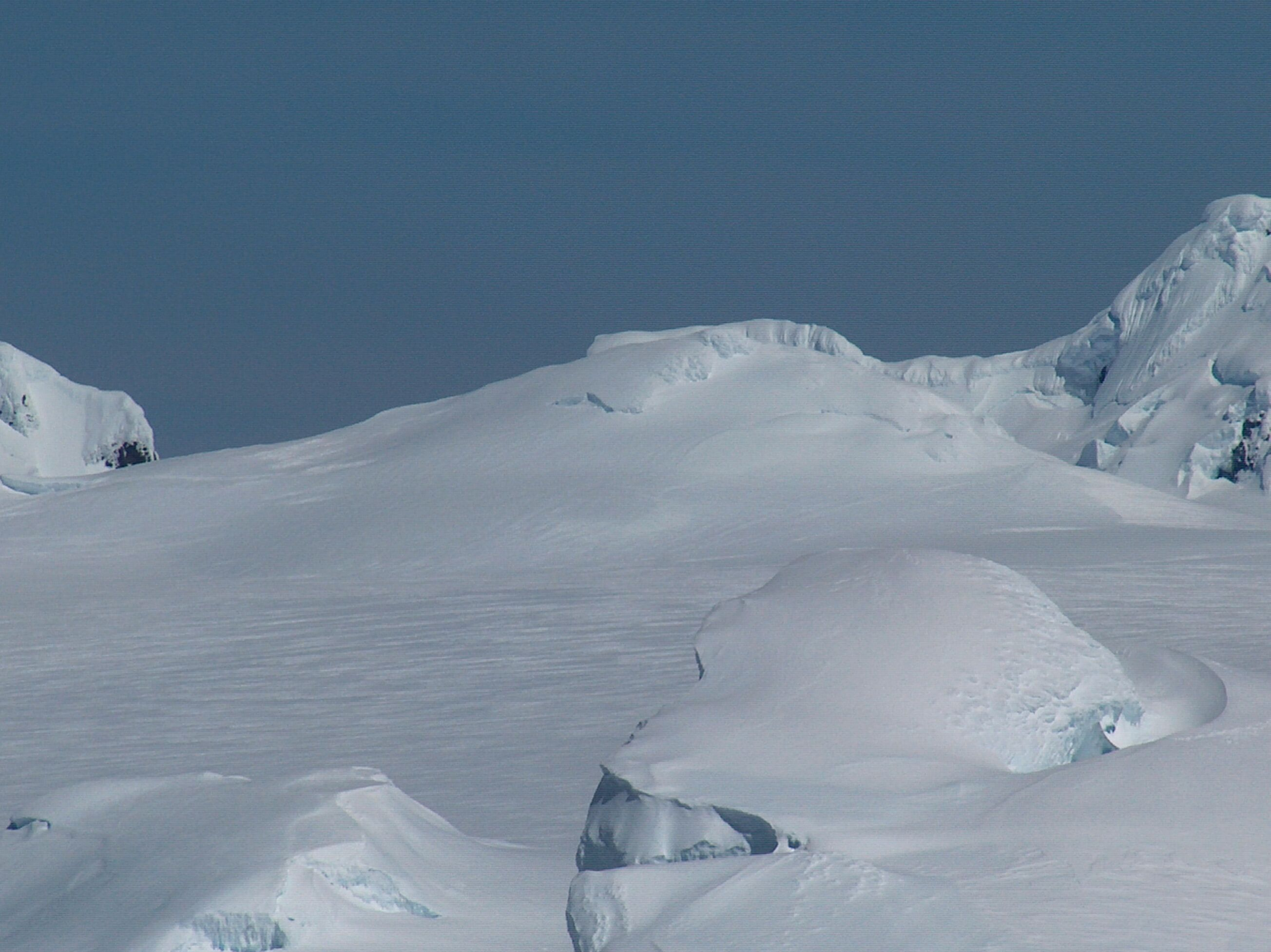 Hemus Peak is located in eastern Livingston Island. source: Lyubomir Ivanov